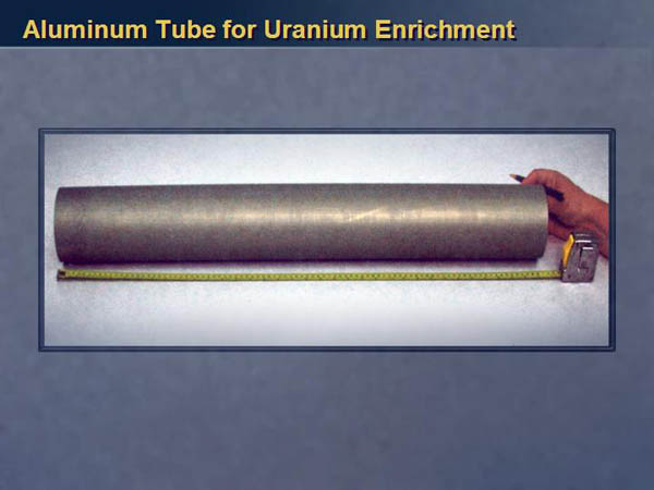 Colin Powell's UN presentation slide showing an alleged Iraqi-ordered Aluminum Tube for Uranium Enrichment. (Subequently shown to be an incorrect allegation.) Speech entitled: Remarks to the United Nations Security Council, Secretary Colin L. Powell, February 5, 2003